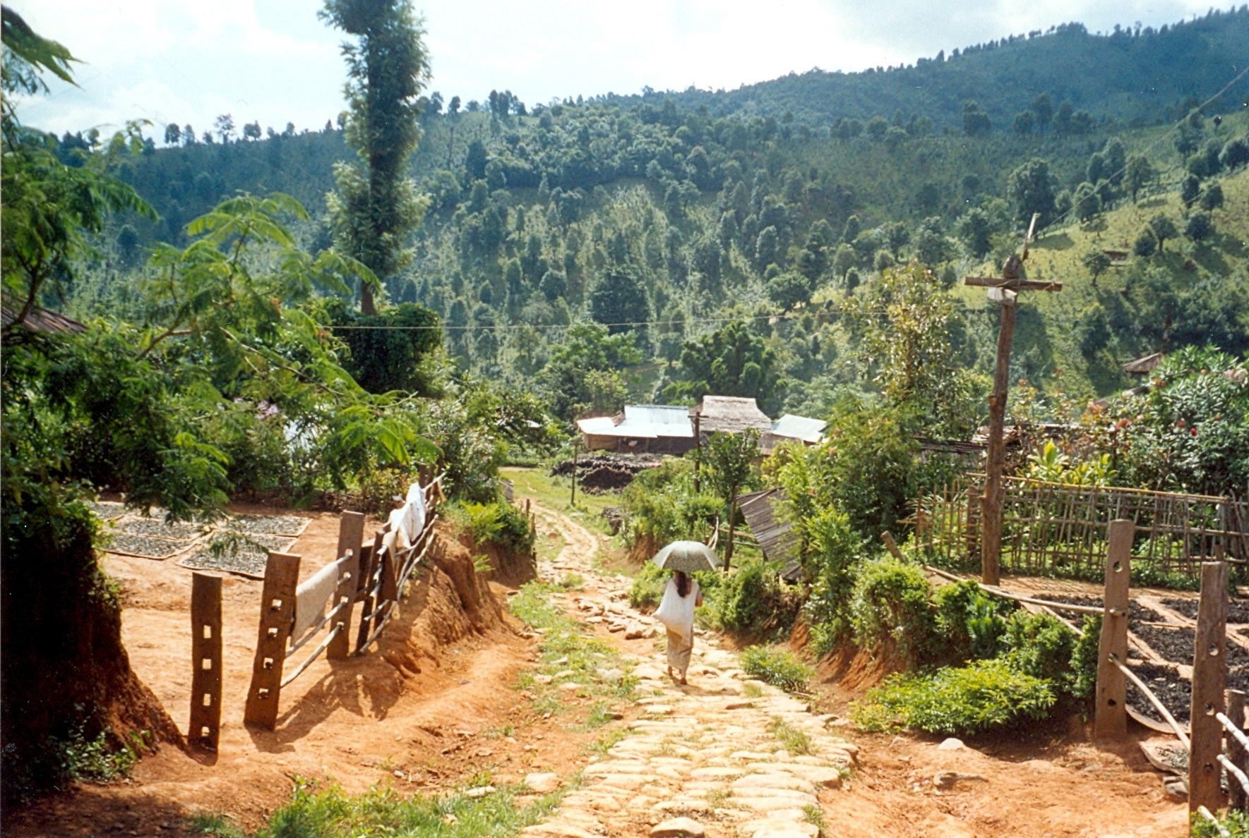 Village, northern Shan State, Burma.